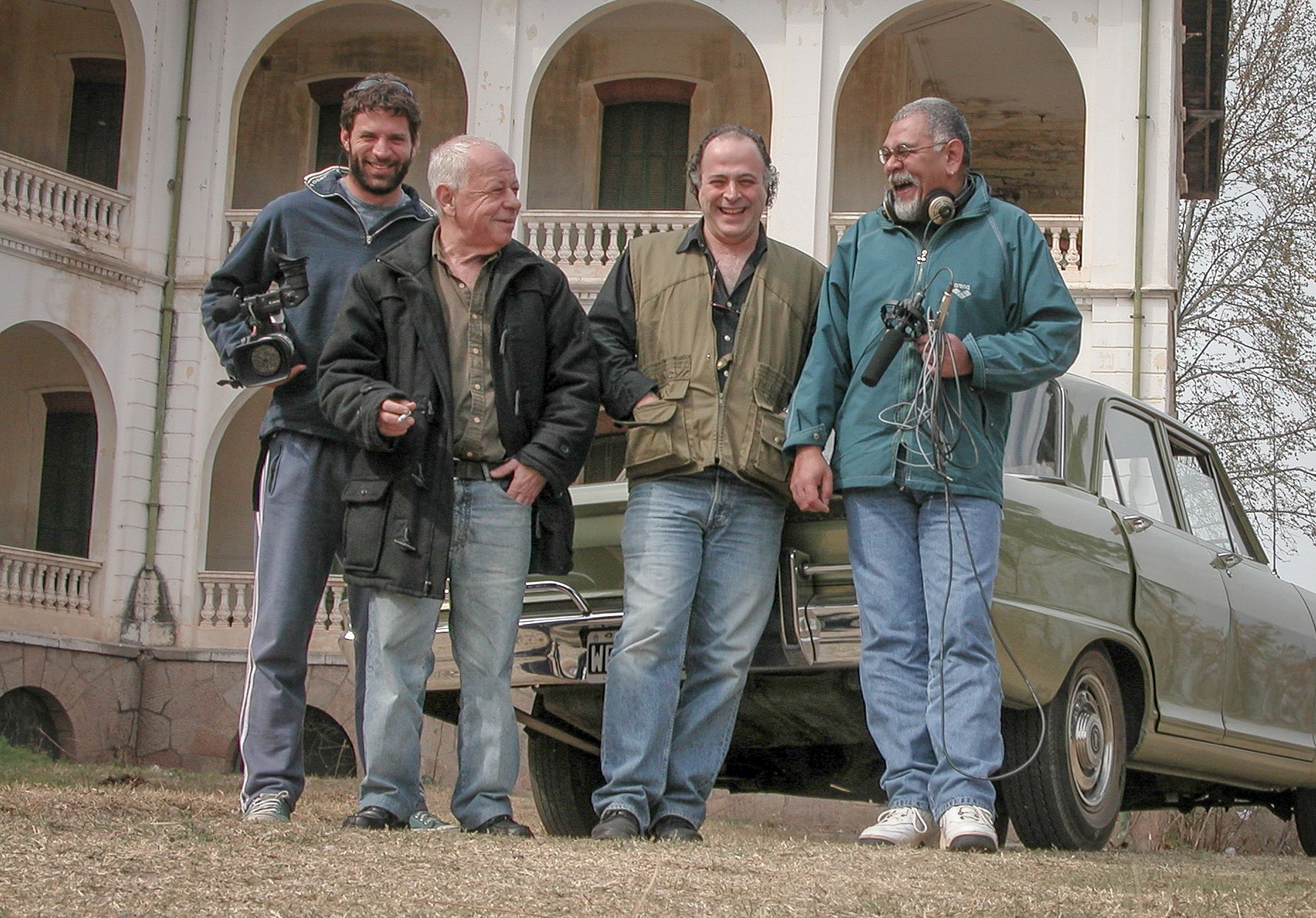 Principal crew with Andres Rivera and Montes-Bradley during the making of “Marcos Ribak aka Andres Rivera” in Cordoba, Argentina.